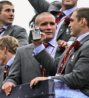 Cropped image of England rugby celebrations. Phil Vickery.